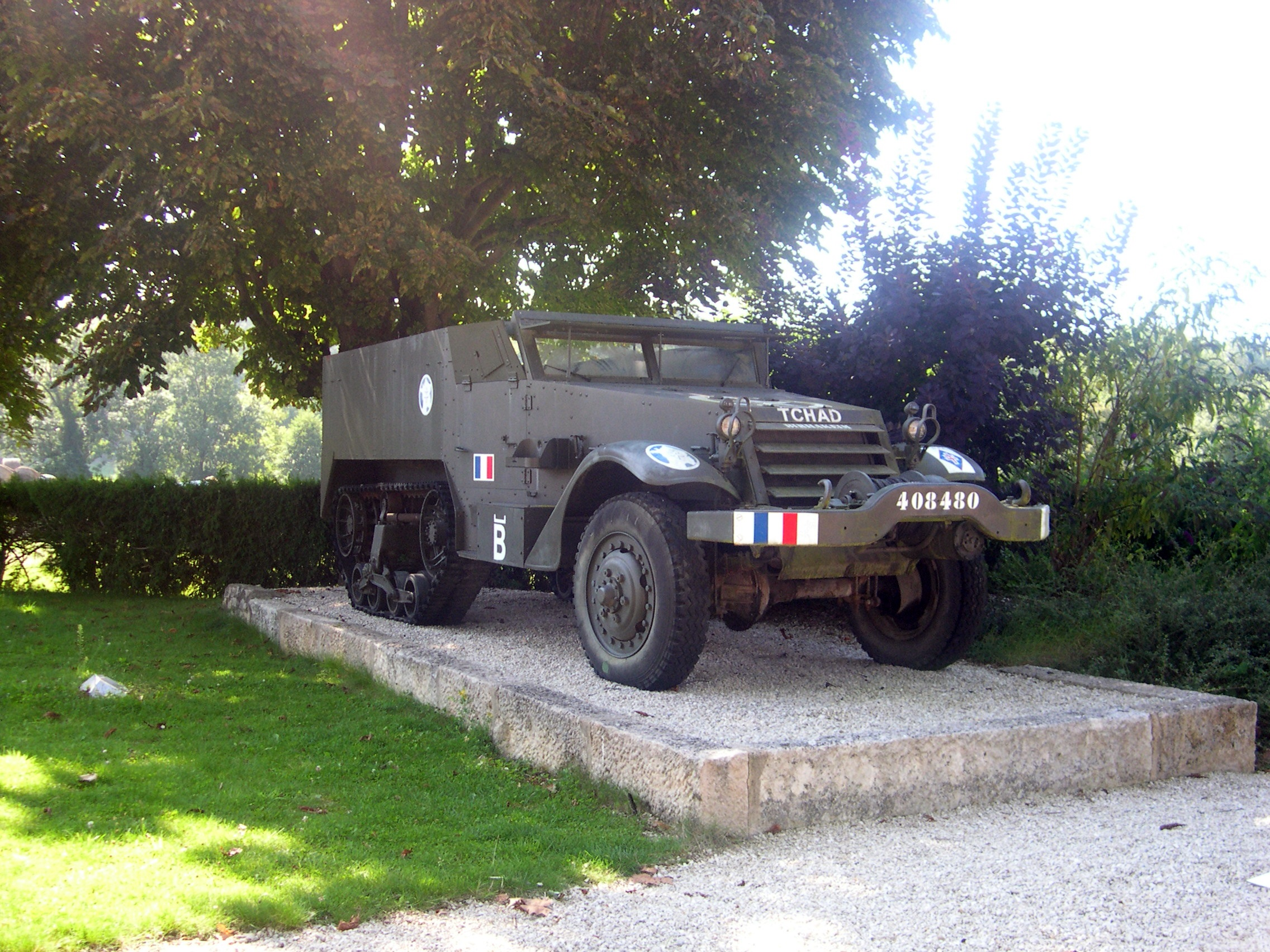 A half-track in Nod-sur-Seine, France.